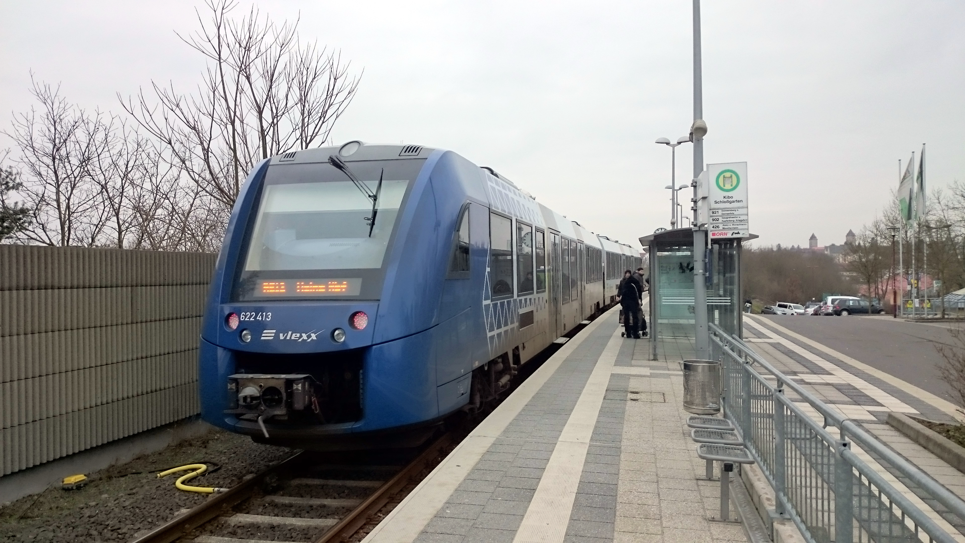 Kirchheimbolanden station